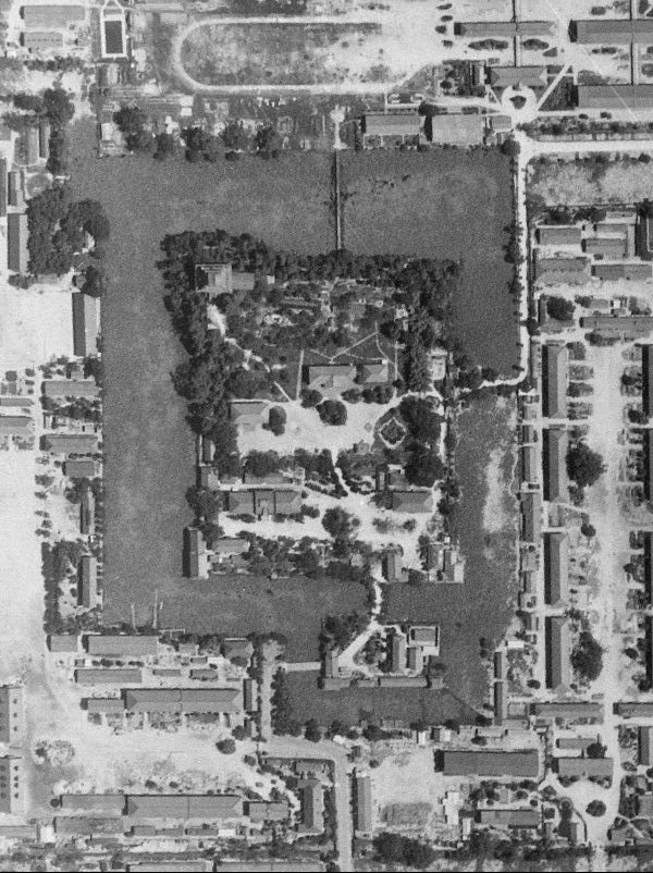 Comparative Aerial Imagery of the Hiroshima Castle Pre-Nuclear Blast.